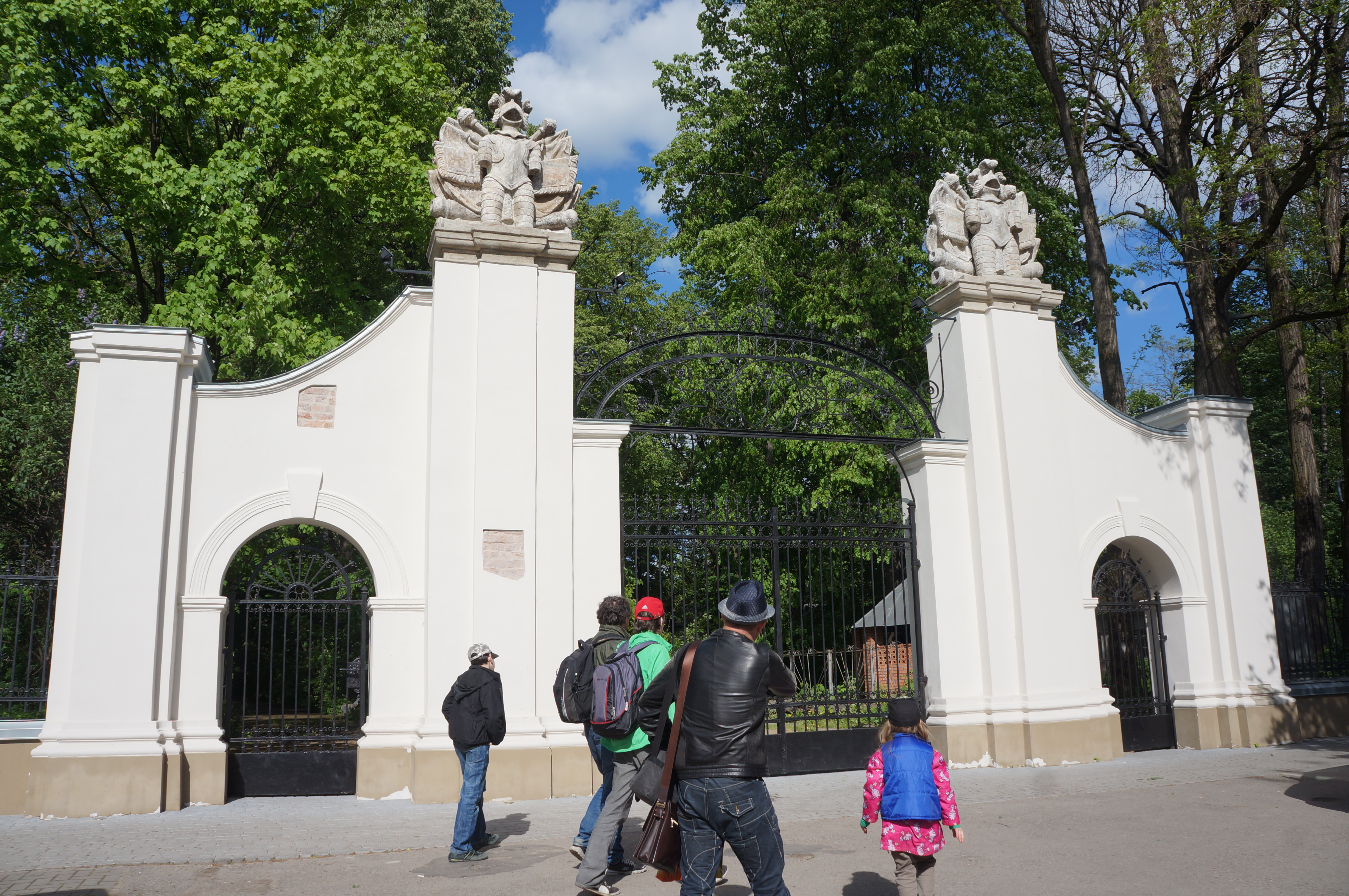 Gates of Potocki Palace, Ivano-Frankivsk